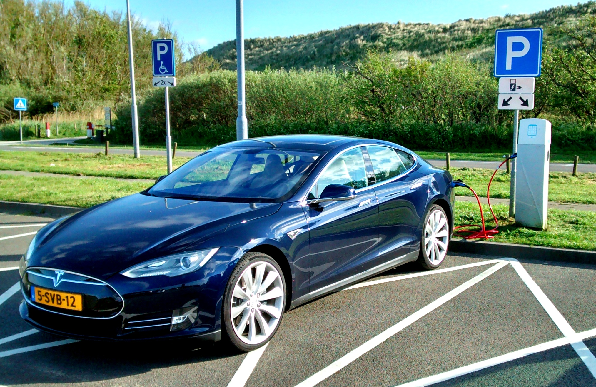 Blue Tesla Model S charging at the Zoutelande dunes, Holland, the Netherlands